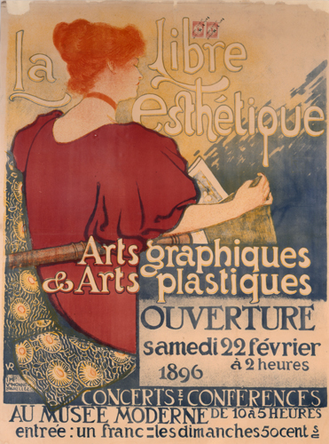 Exhibition poster for La Libre Esthétique, Théo Van Rysselberghe, 1896